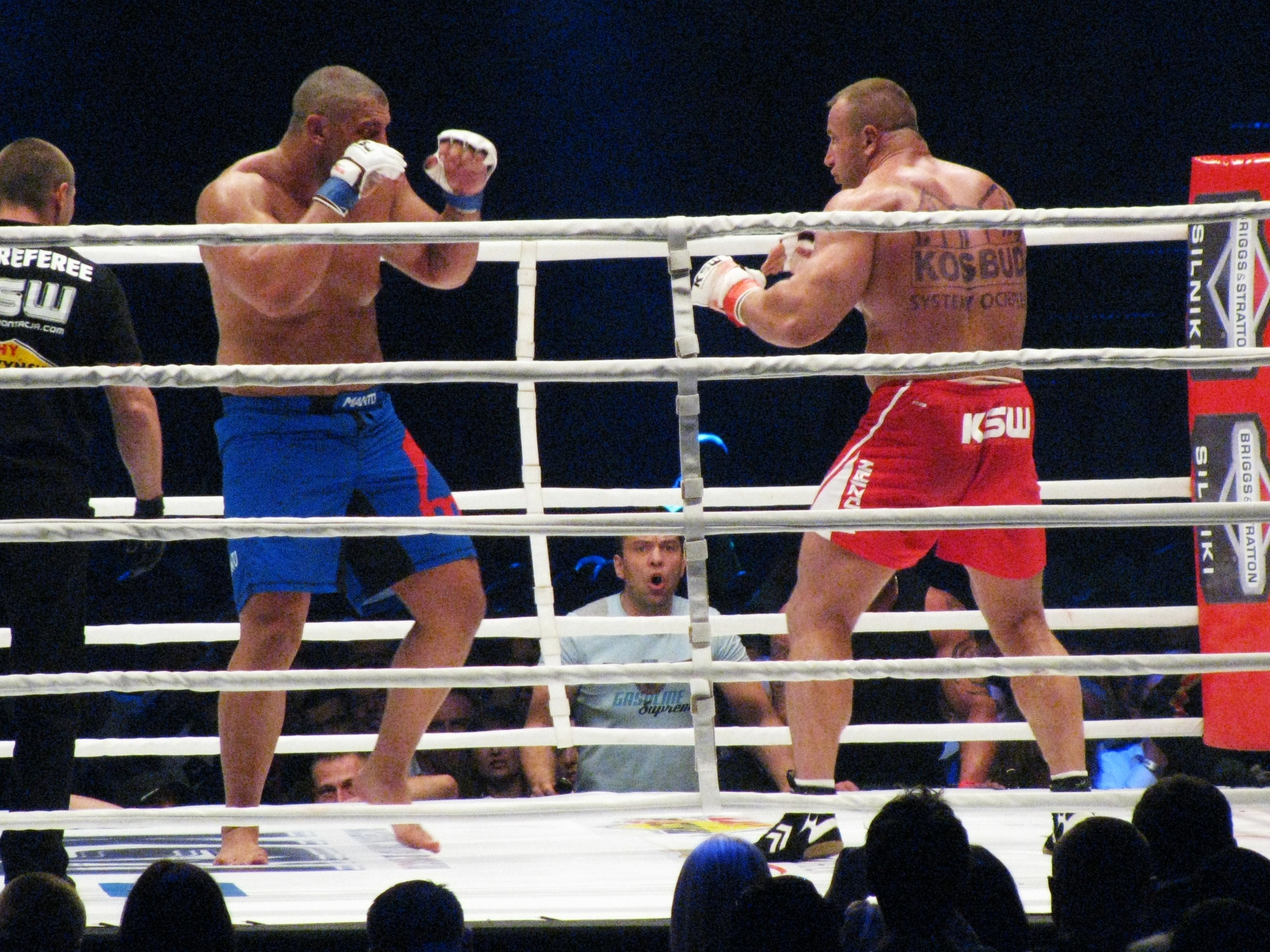 Mariusz Pudzianowski (Poland) vs James Thompson (England) in Gdańsk, Poland.